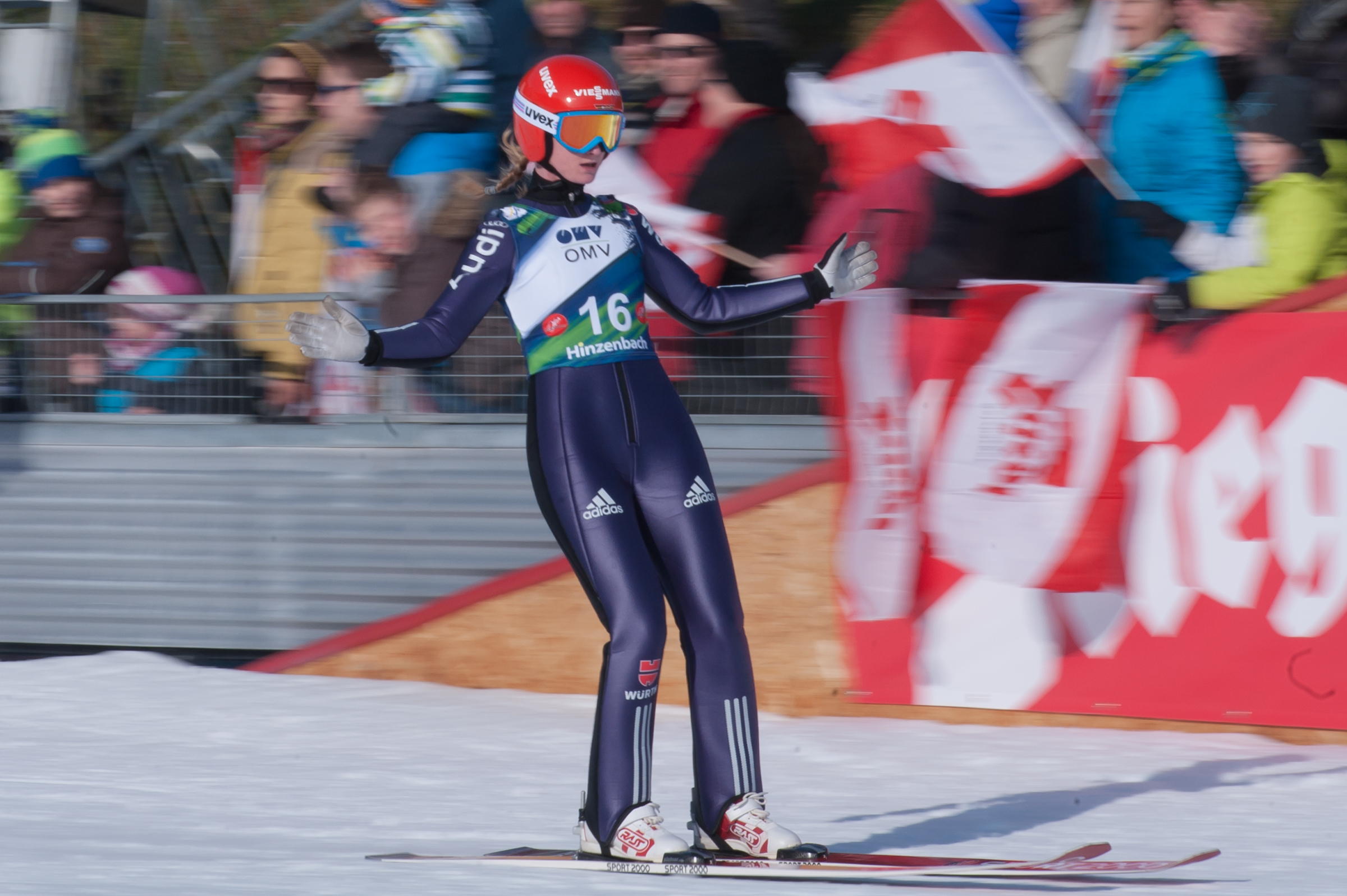 FIS Ski Jumping World Cup Hinzenbach Sun 1 Feb 2015